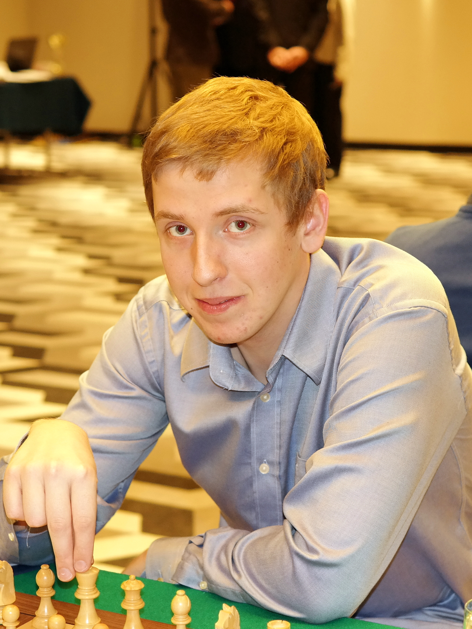 IM Tomasz Warakomski, Polish Chess Championship, Warsaw 2014